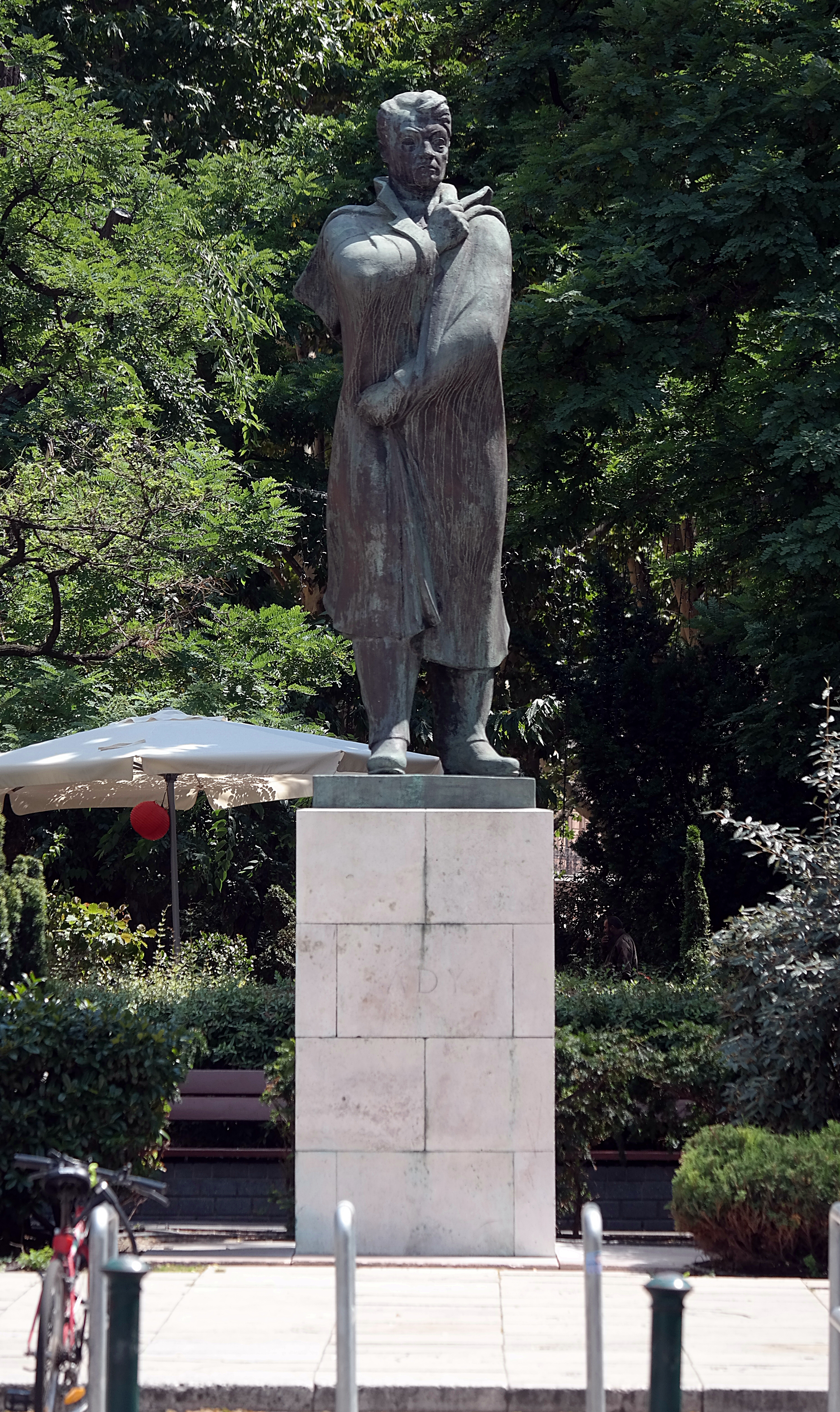 Statue of Ady Endre in Budapest